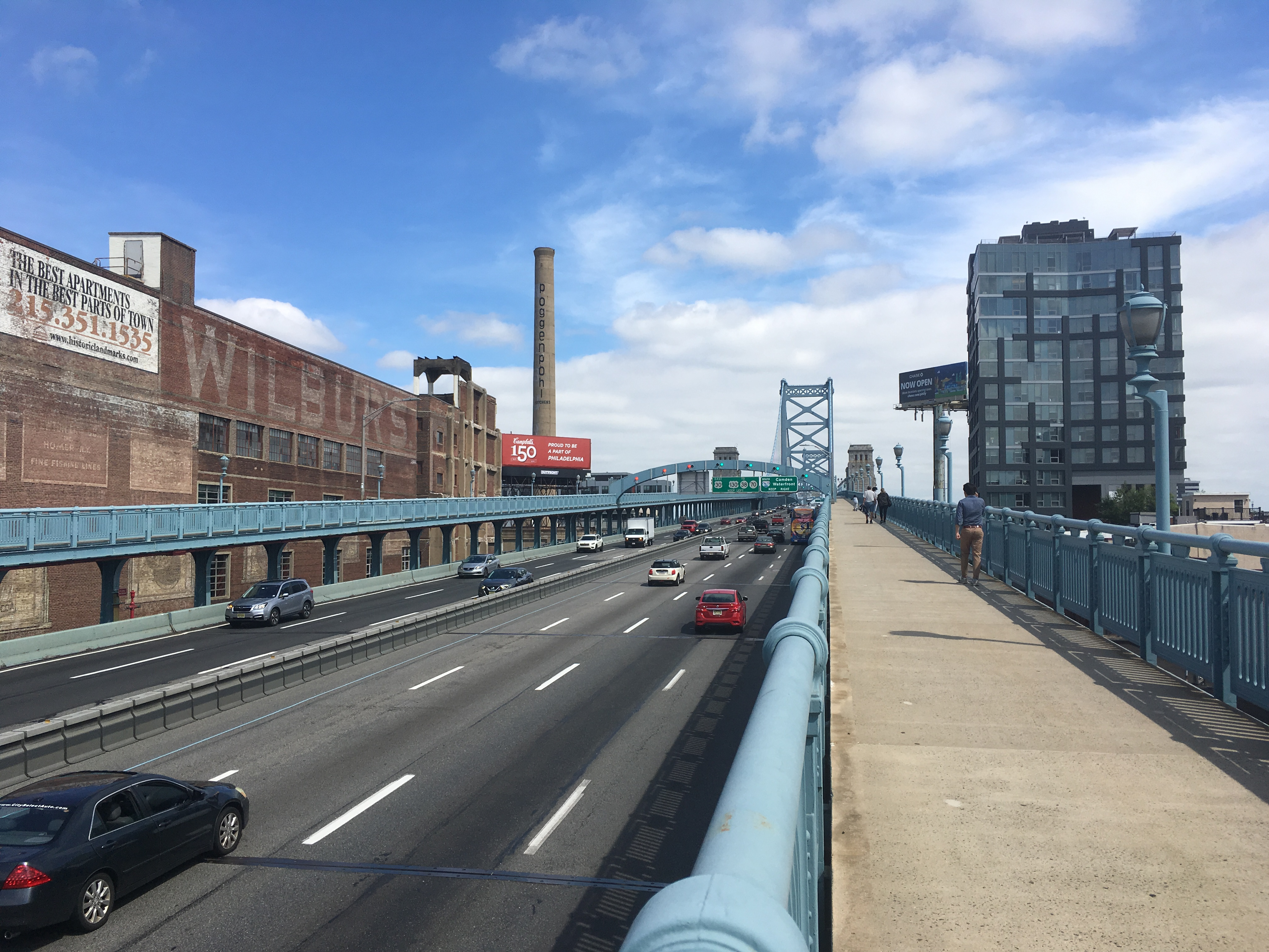 Eastbound Benjamin Franklin Bridge, which carries Interstate 676 and U.S. Route 30 over the Delaware River, leaving Philadelphia, Pennsylvania